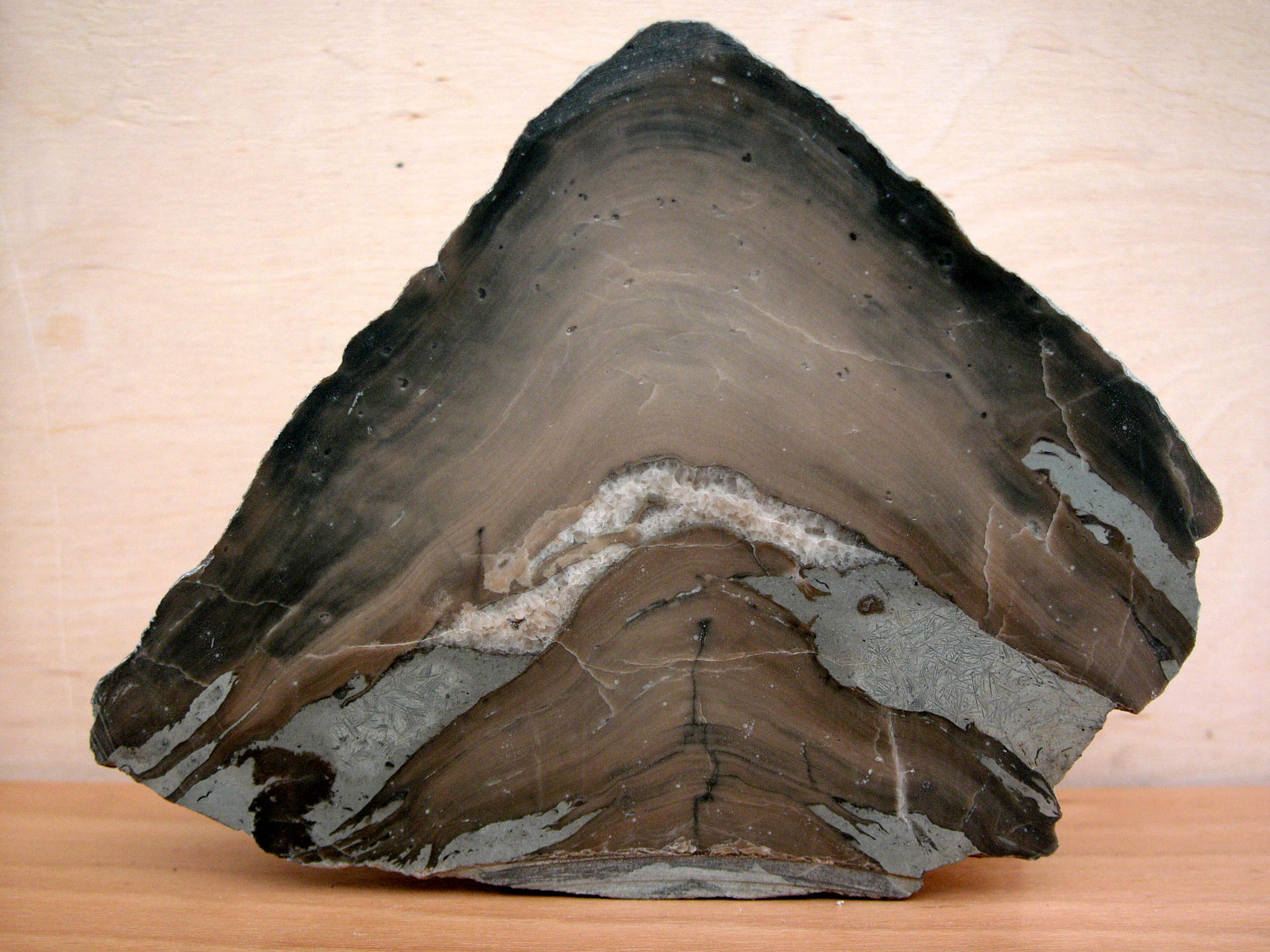 Silurian fossil stromatopora (fossil sponge) from Gotland, Sweden